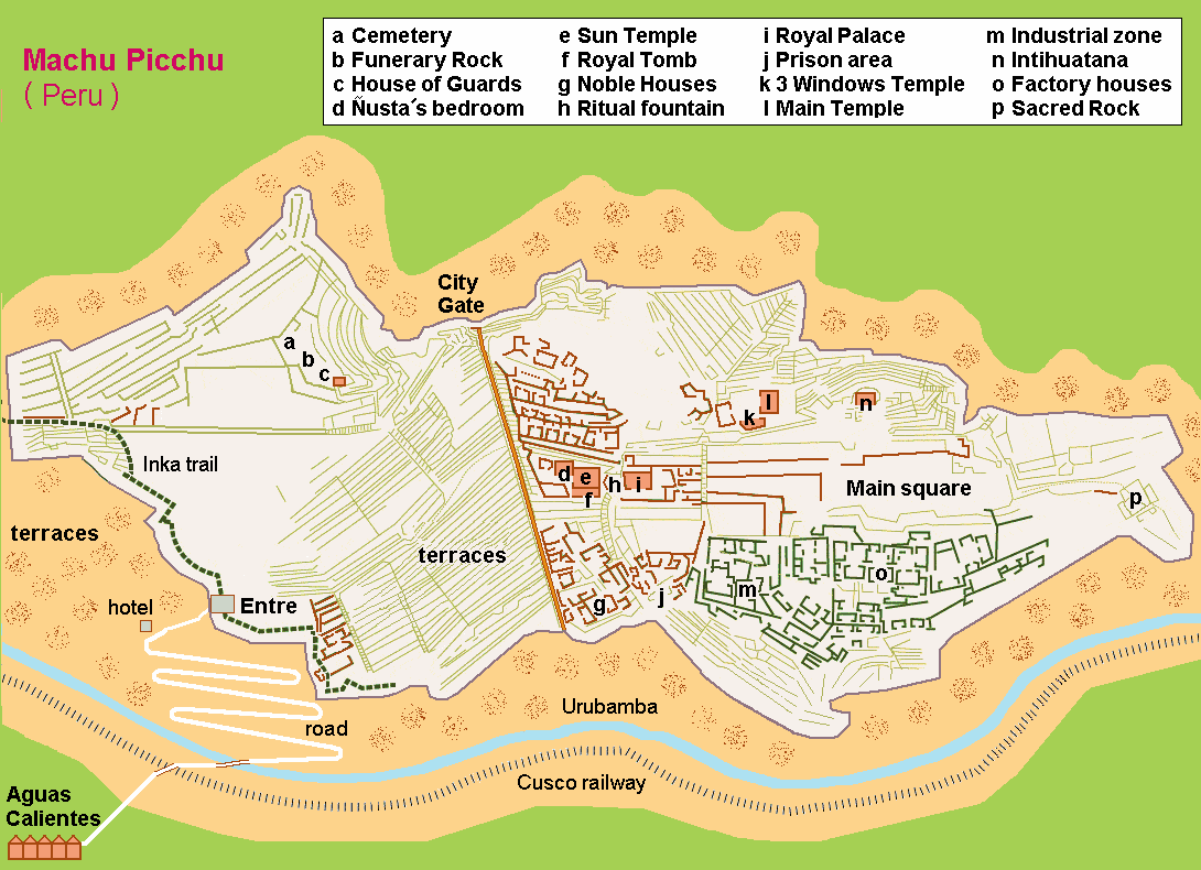 Map (rough) Machu Picchu, own work composed from various mapreferences